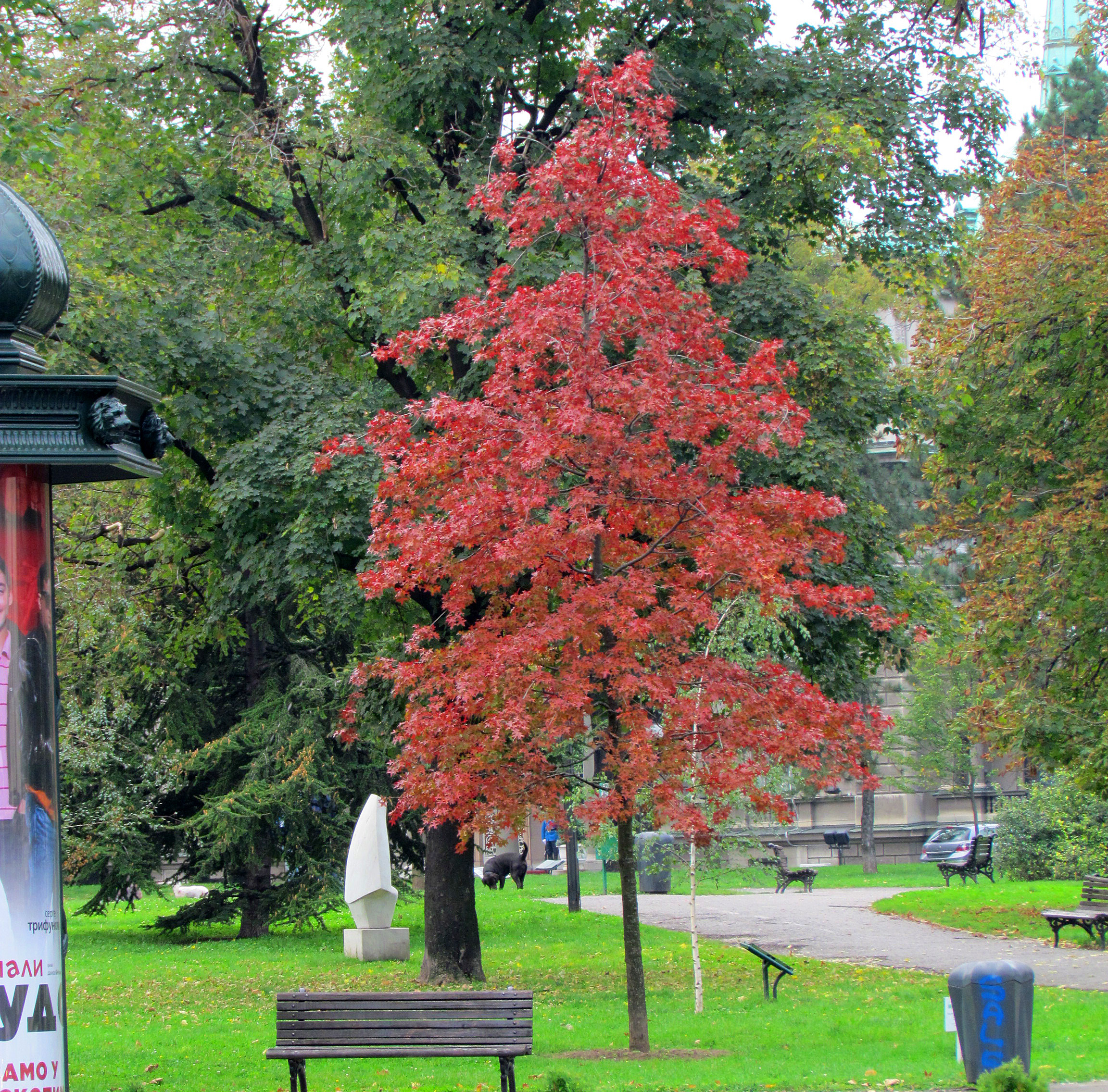 Quercus palustris autumn color, Pionirski park, Belgrade